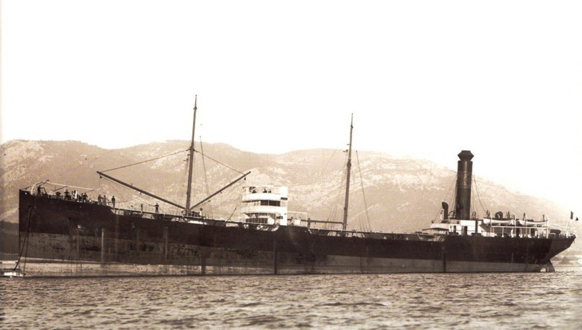 The French oil tanker Rhône between 1911 and 1918.